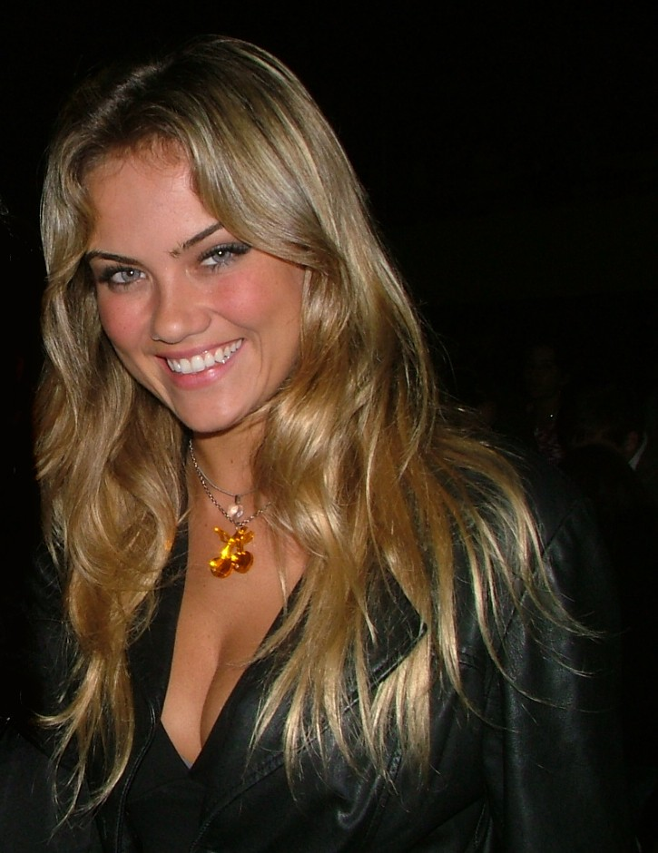 Brazilian model Ellen Rocche.